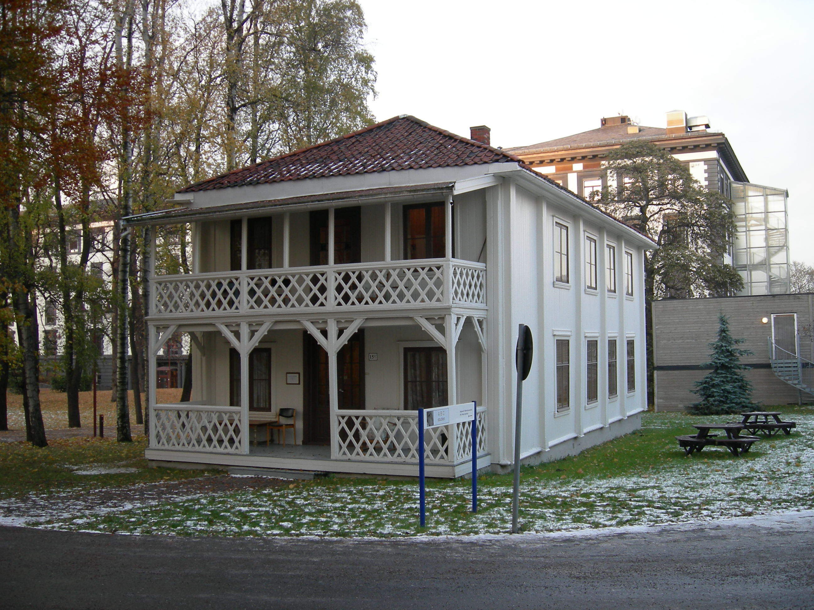 Old Lovisenberg building, Oslo, Norway Photo taken by myself with my own camera.